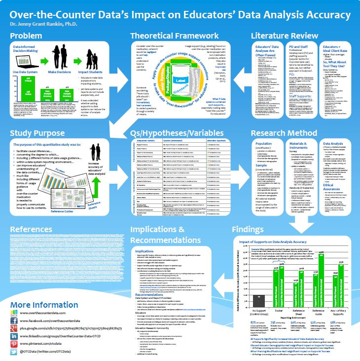 Infographic of the "Over-the-Counter Data’s Impact on Educators’ Data Analysis Accuracy" study involving data analysis supports featured with educational technology data systems/reports; infographic created by Jenny Grant Rankin, 2013